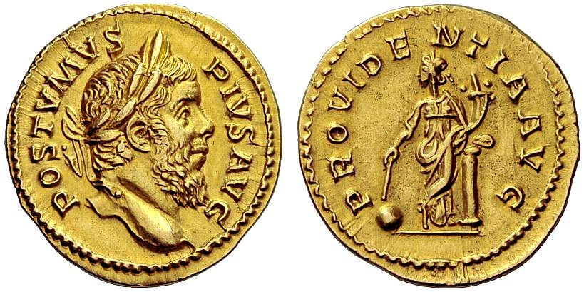 Postumus, 260 – 269, Aureus, Lugdunum 263, AV 5.38 g. POSTVMVS – PIVS AVG Laureate head right. Rev. PROVIDENTIA AVG Providentia standing left, leaning against column, holding cornucopiae and pointing with wand to globe at her feet. C 300. RIC 32. Calicó 3770. Schulte 59a (this coin). Biaggi 1527 (this coin).